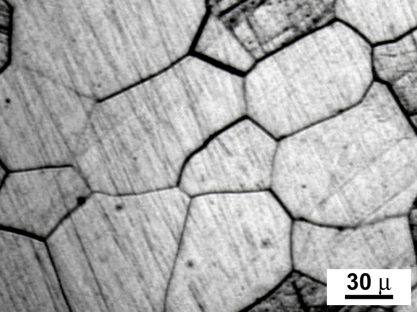 Microstructure of VT22 (Ti5Al5Mo5V1,5Cr) after quenching